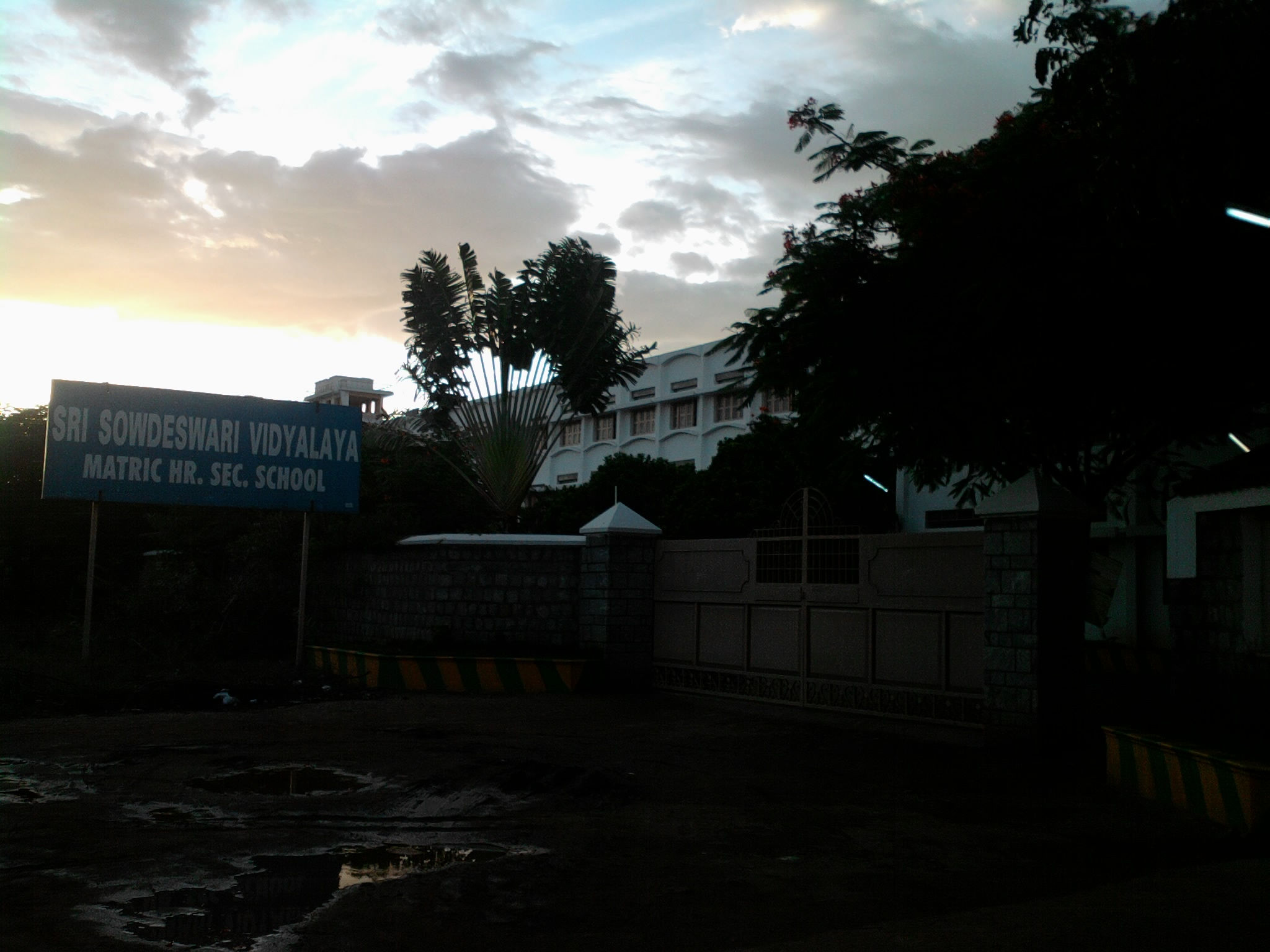 Entrance of Sri Sowdeswari vidyalaya matriculation higher secondary school, Chokkampudur, Coimbatore, India